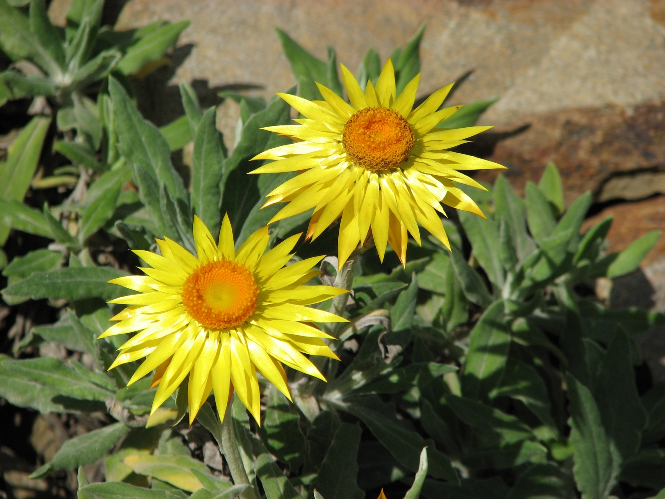 Xerochrysum bracteatum 'Dargan Hill Monarch' (cultivated, labelled) Royal Botanic Gardens Cranbourne, Australia